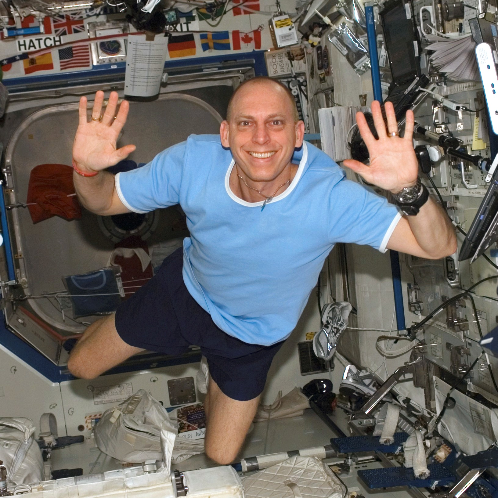 NASA astronaut Clayton Anderson floating in the Destiny laboratory of the International Space Station during Expedition 15.